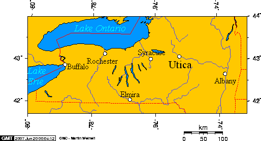 Selected cities of upstate new york